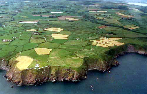 cliffs of Old Parish